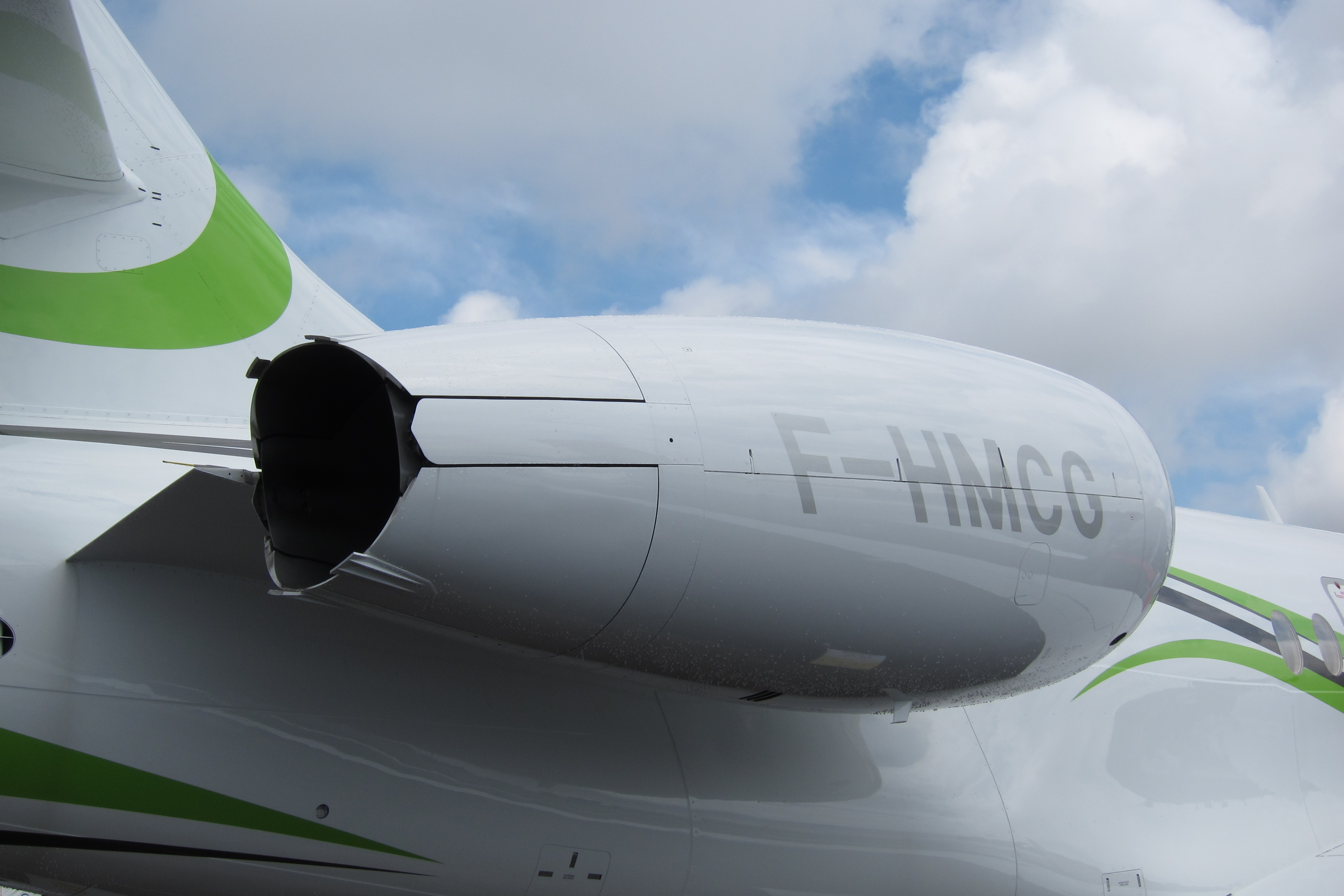 A Pratt & Whitney Canada PW308C powerplant installed on a Dassault Falcon 2000S on display at the Paris Air Show 2013